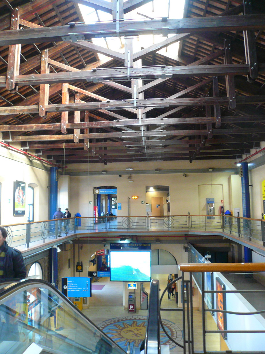 Estació del Nord, Barcelona, Catalonia.